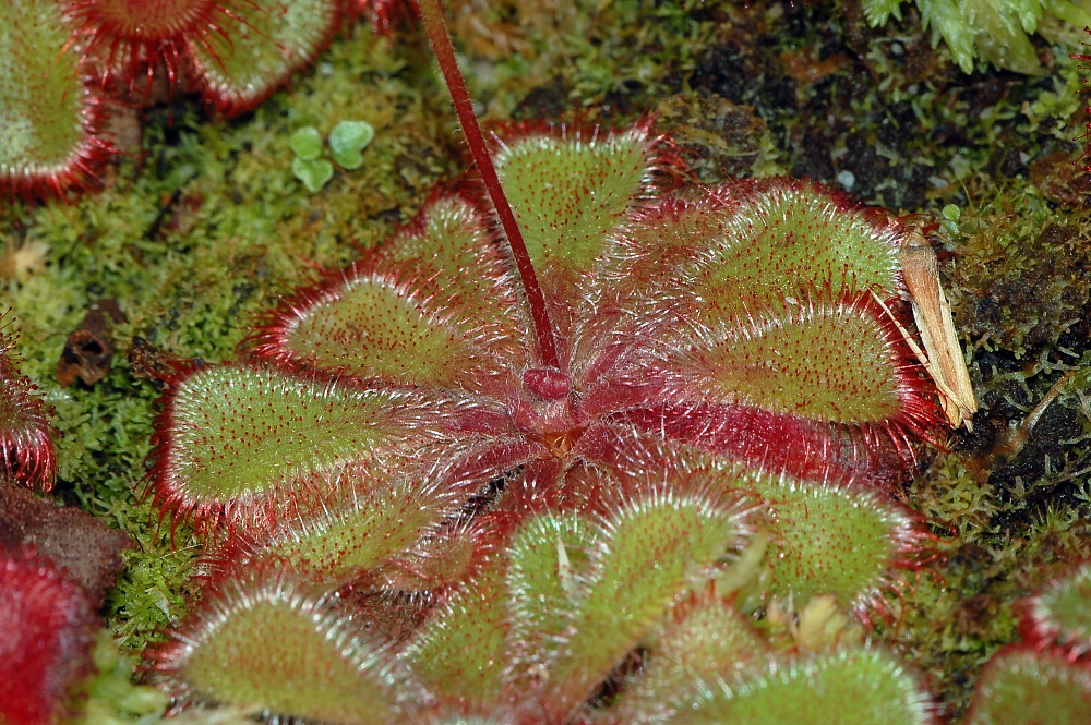 Drosera cuneifolia, Palmengarten, Frankfurt/Main, Germany